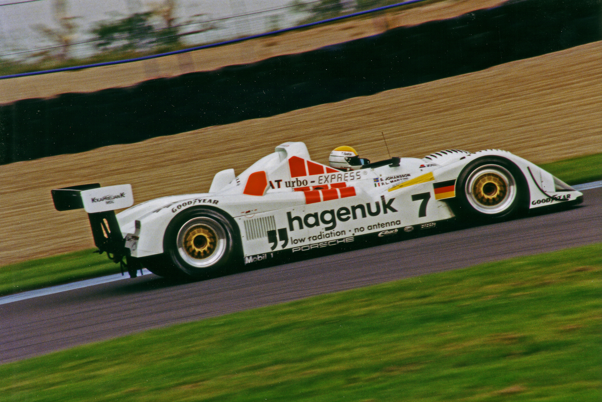 Stephan Johansson Donnington 5th July 1997 Joest Porsche WSC95